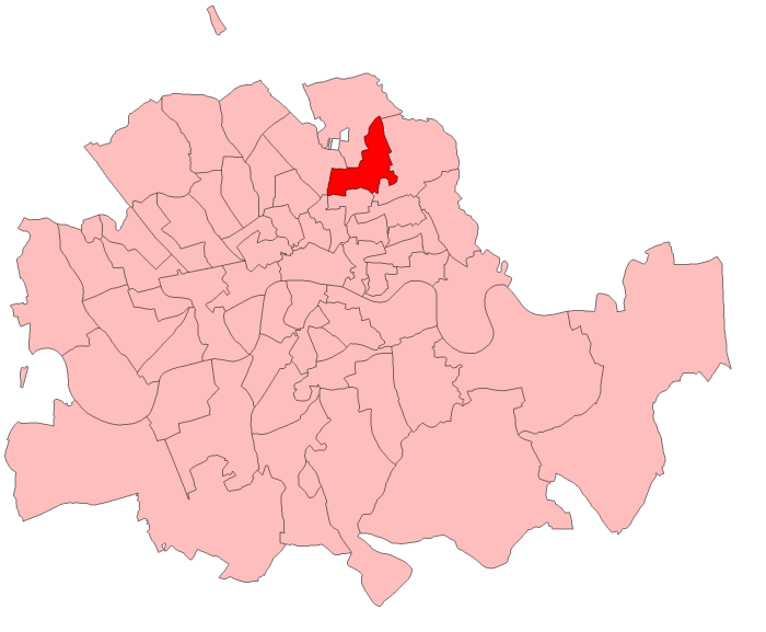 A map of Hackney Central constituency within the Metropolitan Board of Works area, as it existed from 1885 to 1918.